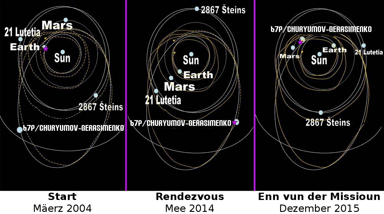 Trajectory of Rosetta Space Probe with slovak headlines